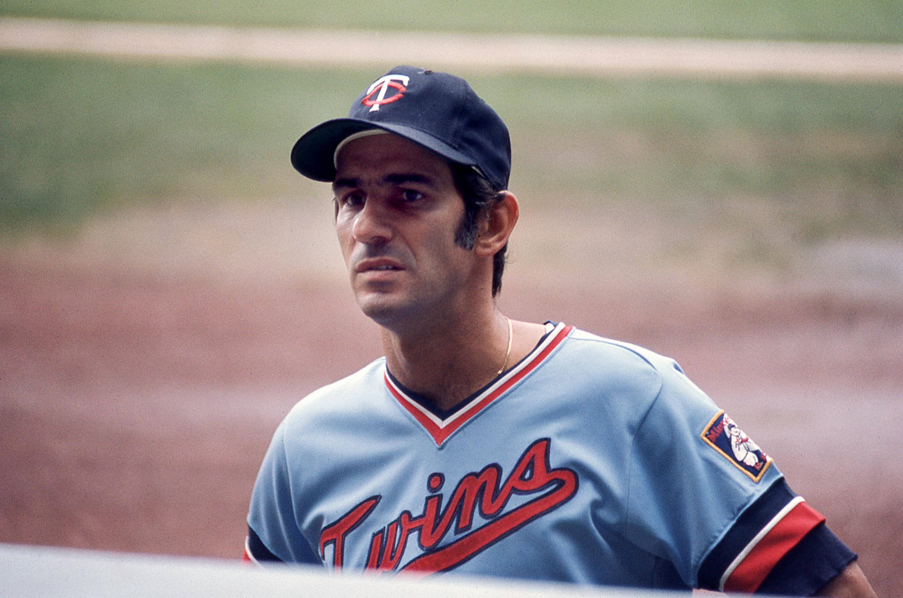 Frank Quilici as manager of the Minnesota Twins in Cleveland on August 31, 1975